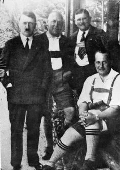 Adolf Hitler, Gregor Strasser, Ernst Roehm and Hermann Göring during a gathering in Berchtesgaden in 1932.